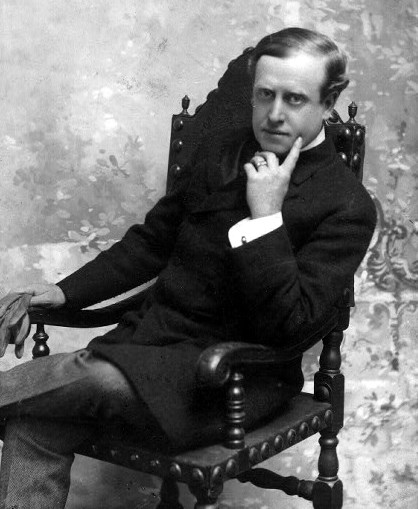 Nat C. Goodwin